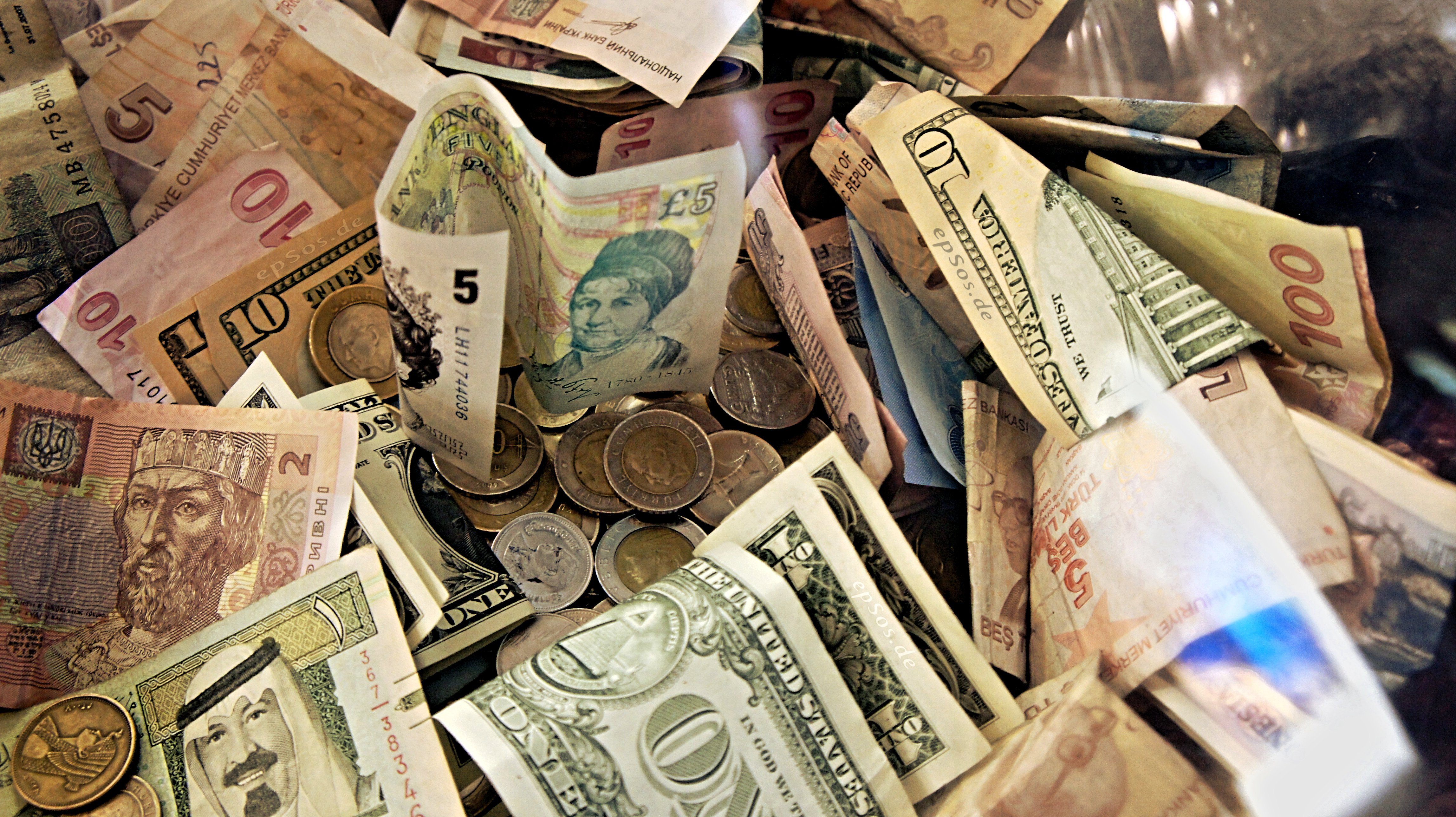 The easiest way to look at this investment opportunity is to look into two different currencies. How much is a peso from Argentina worth when compared to the Japanese Yen? If you look online for this, you will see that there’s a difference. Now compare the United States Dollar to another currency. You’ll see that there is a ratio of difference forex signals. That should tell you about how comparing currencies can highlight differences. Now, here is where things really get interesting, as you’ll find that the currency differences are fascinating in that they change. Today, the peso may not be worth much, but tomorrow it could jump in value. Today the United States Dollar may be weak, and tomorrow? Well tomorrow it could jump to all new heights. These changes are what investors focus on in the FX world, and they use live signals to show them what’s going on. There are several reasons why this matters, and if you’re careful, you could lend your investment strategy to something absolutely grand. The following are the main reasons why live signals matter..